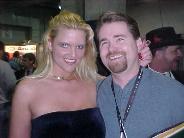 Trinity (left) and Roger T. Pipe (right).